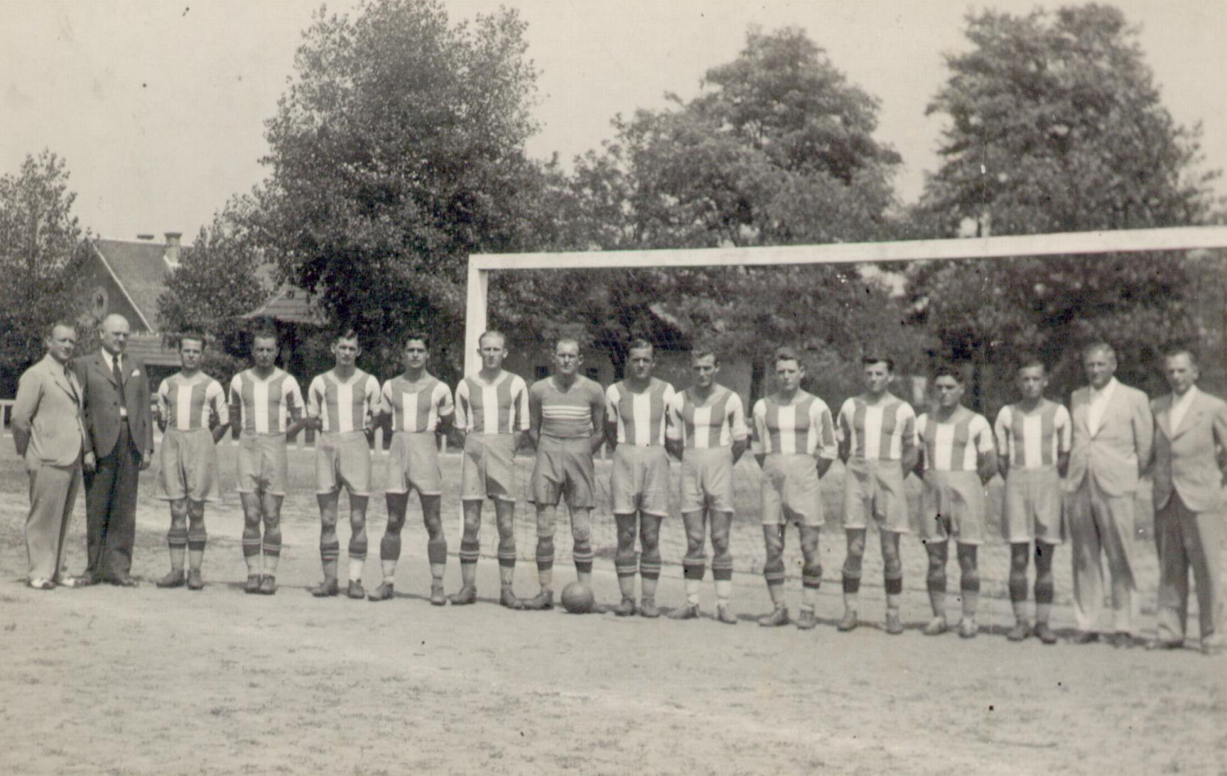 A dorogiak 1939-ben